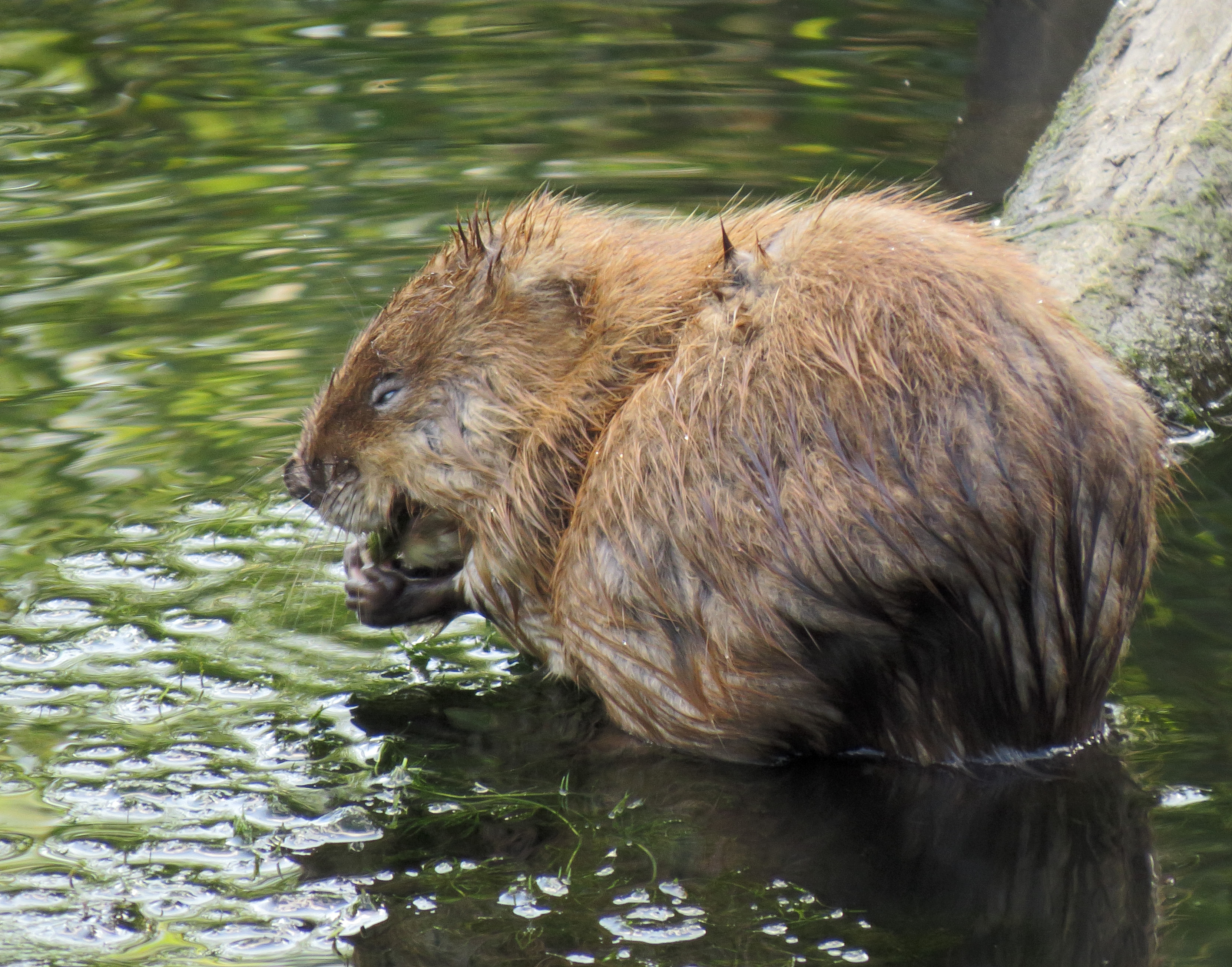 Ondatra zibethicus in Kiev, Ukraine. Nyvka river near Petropavlivska Borshchahivka